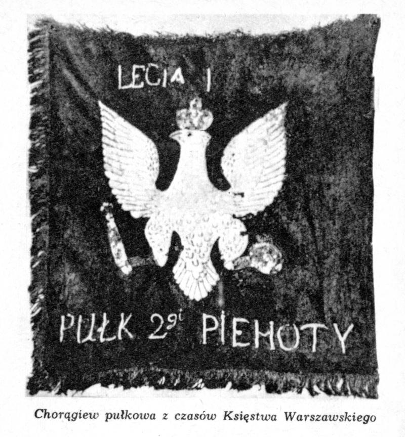 Banner of 2nd Infantry Regiment of the Duchy of Warsaw Photo by Mark Ruszczycz book "Valerian Lukasiriski" of 1963